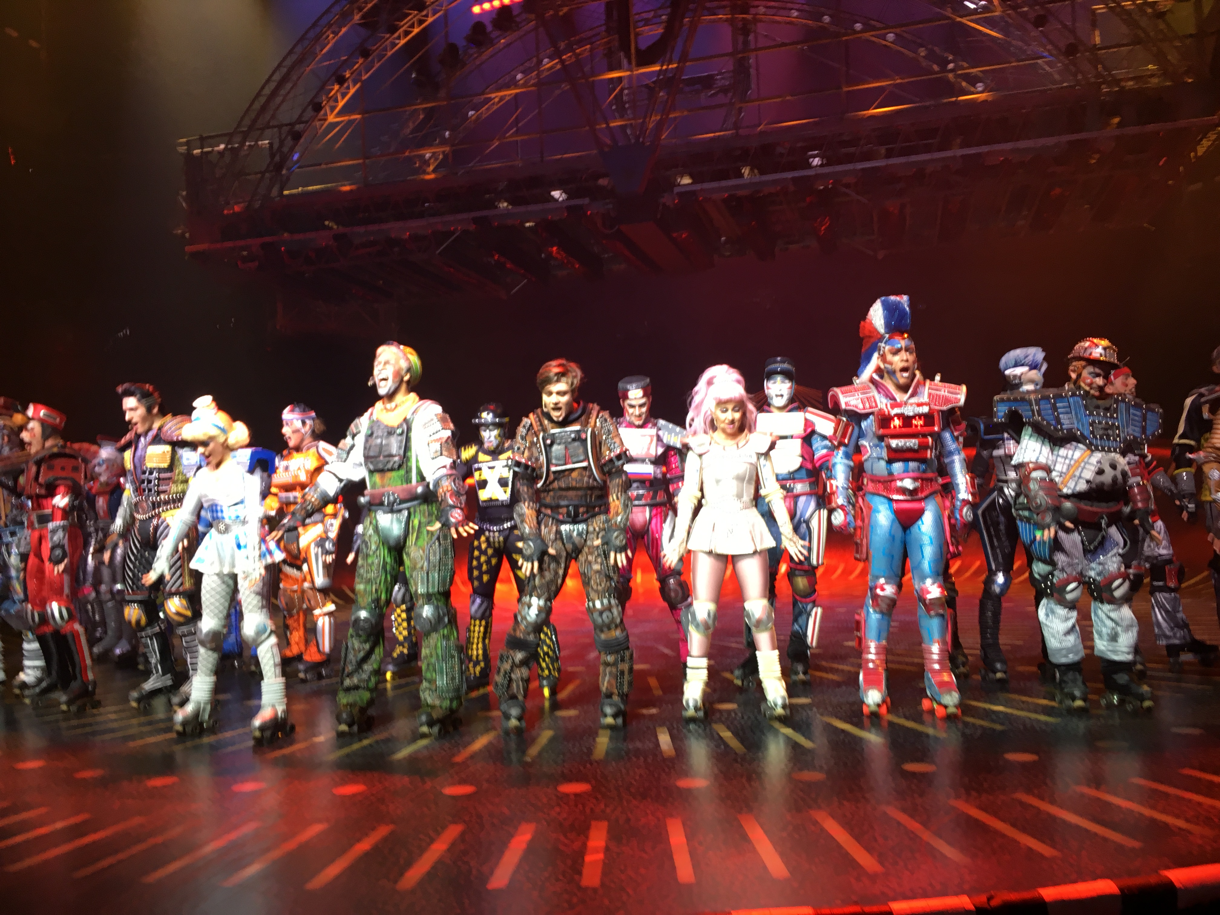 Musical Starlight Express in Starlight Express Theater, Bochum, Germany (April 2018) -- In the encore of the show, taking pictures and publishing them in the net is officially allowed.